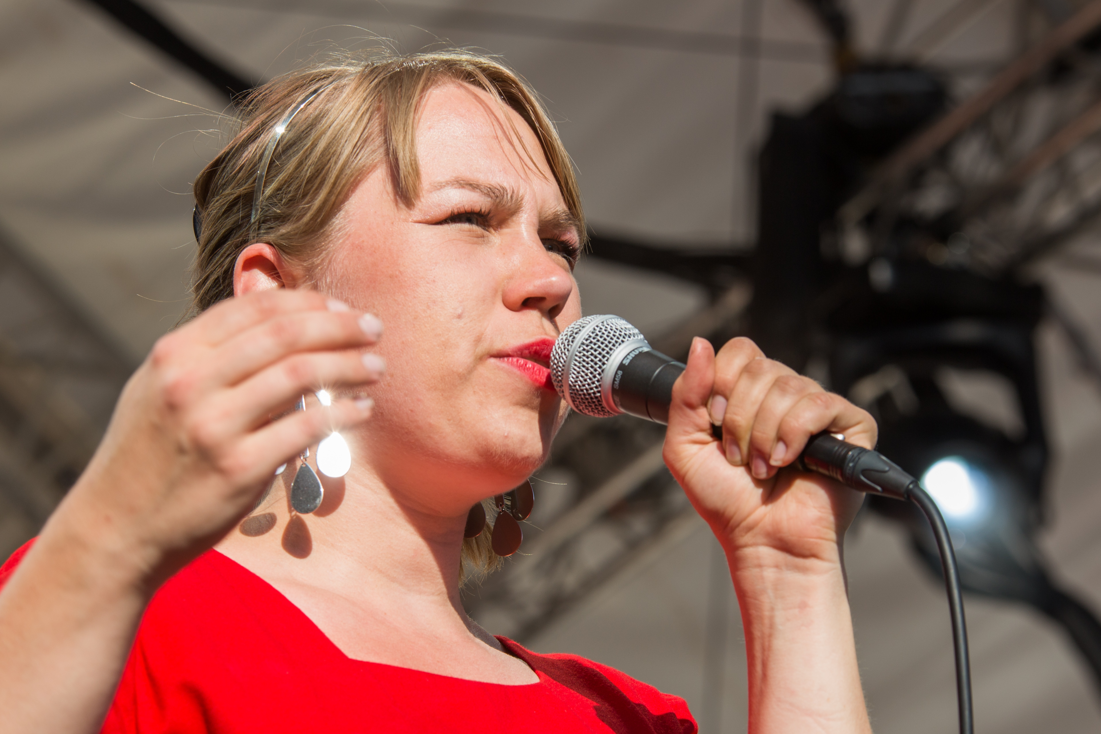 Mari Kalkun and Maija Kauhanen playing at the Rudolstadt-Festival 2018.